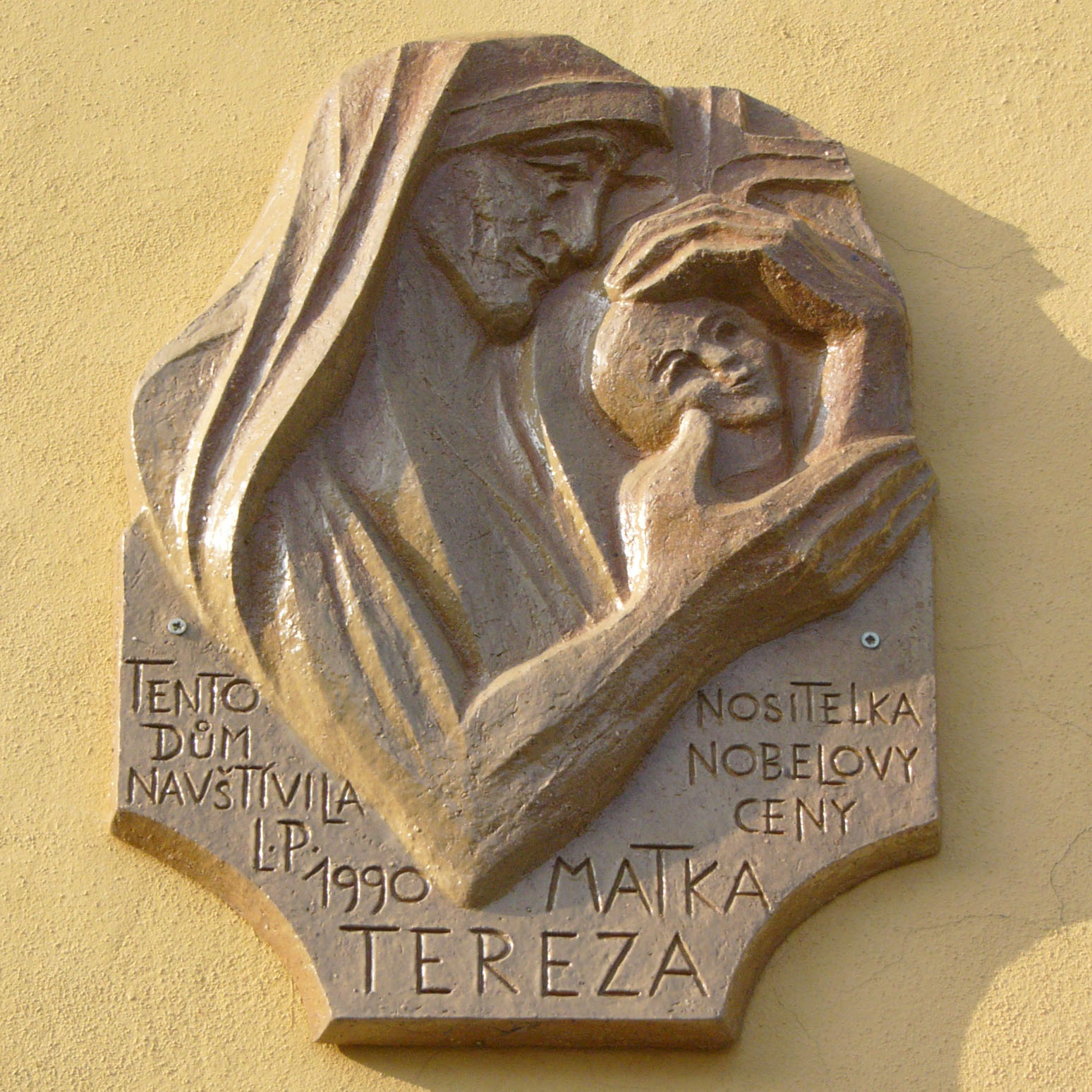 Memorial plaque dedicated to Mother Teresa by Otilie Šuterová-Demelová at building in Václavské náměstí square in Olomouc (Czech Republic).